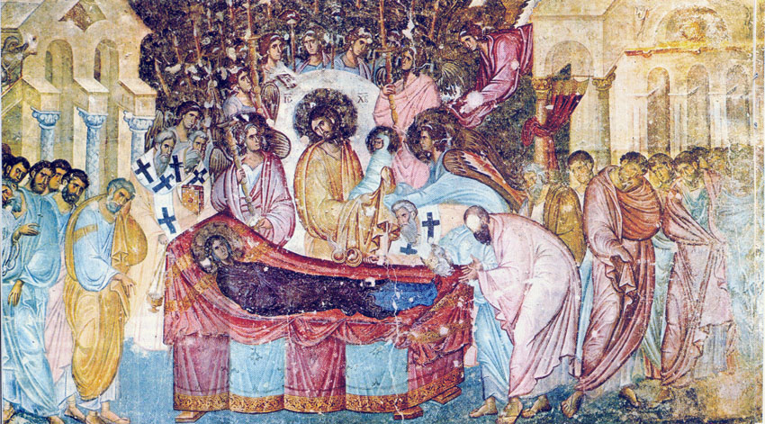 DORMITION OF THE HOLY MOTHER OF GOD Fresco on the west wall of the nave of Holy Trinity church of Sopoćani monastery, 1271-1274.